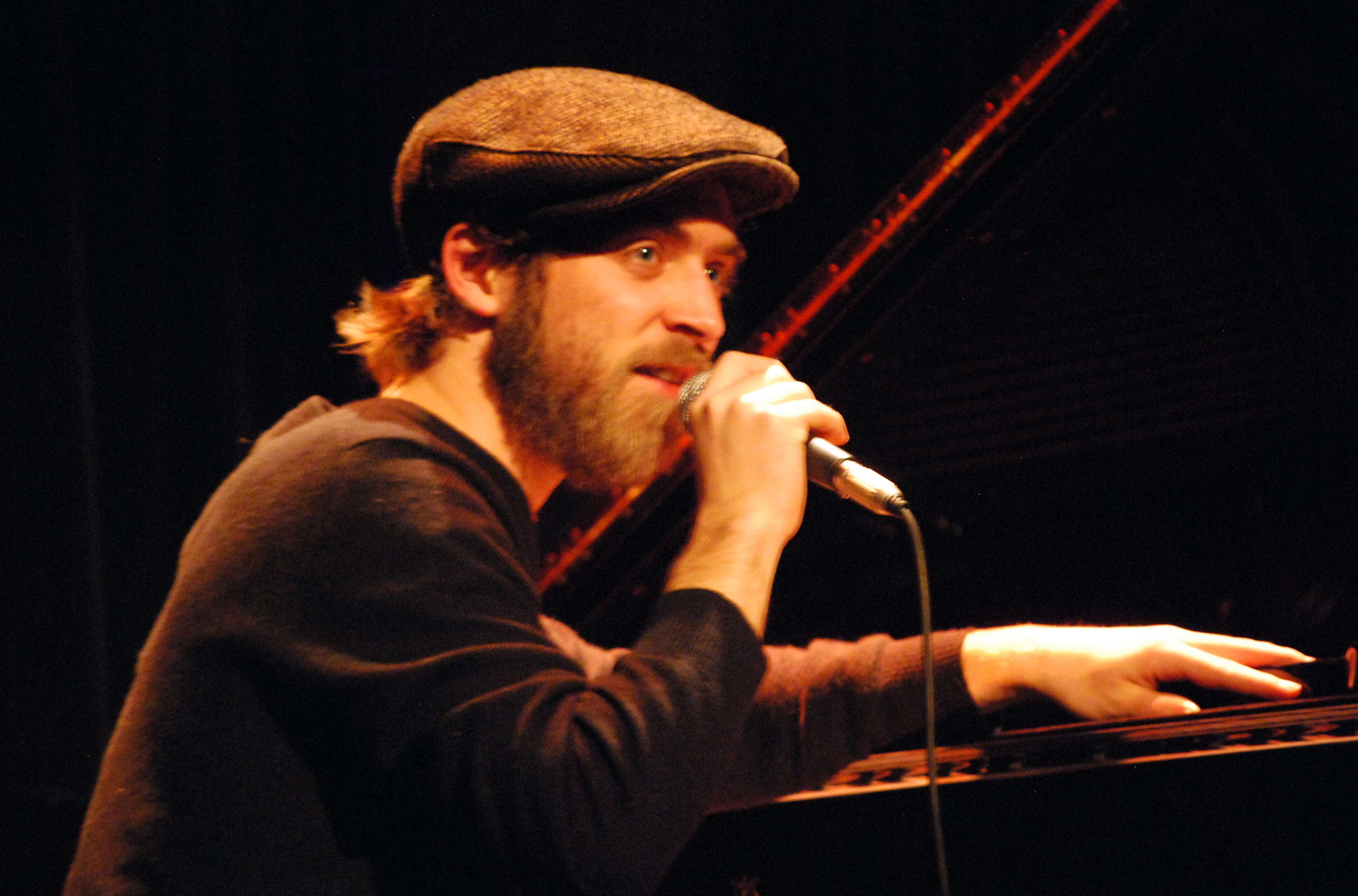 Aaron Parks, Treibhaus Innsbruck 2011